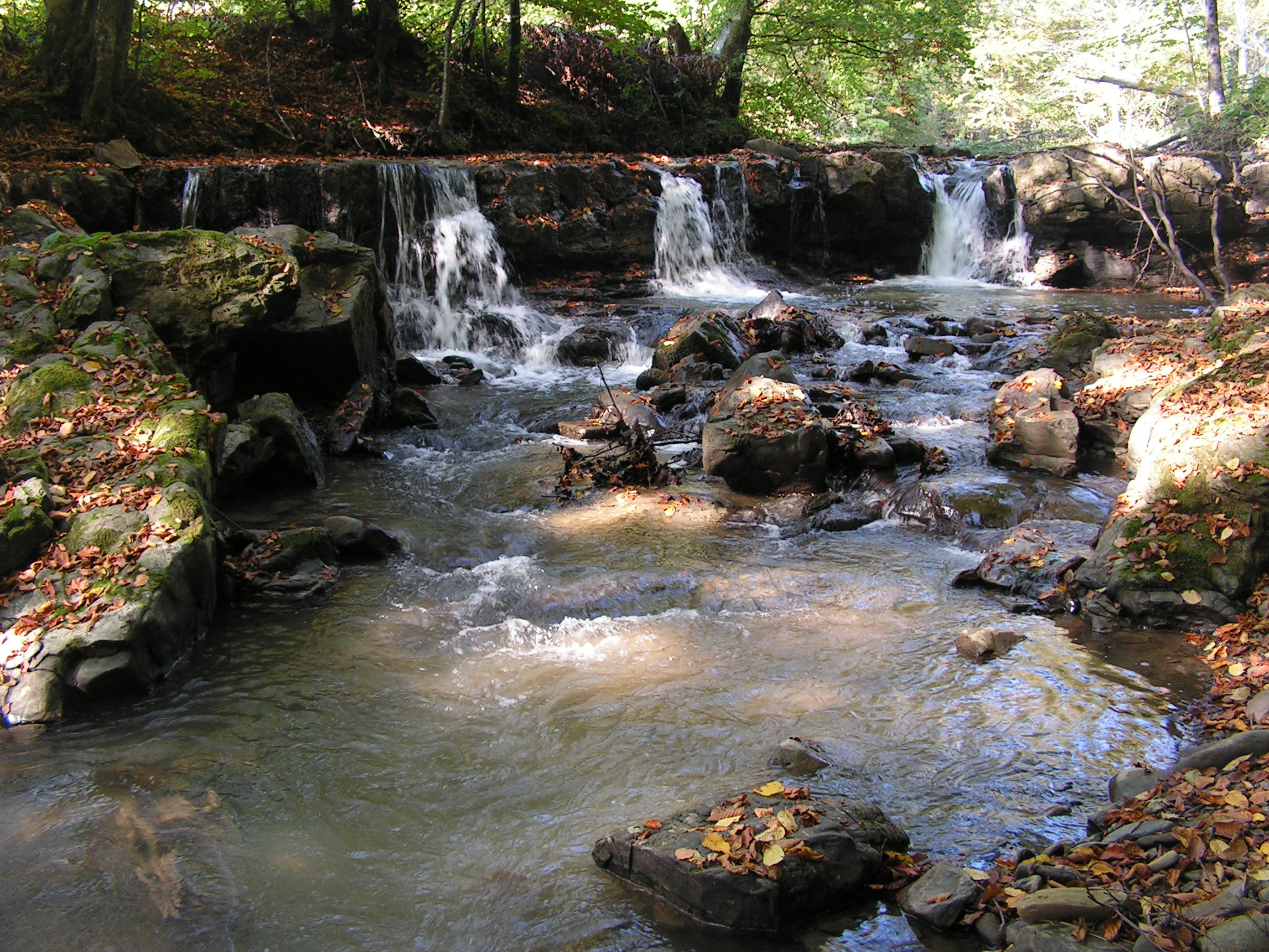 Zbojský potok Creek of Zboj